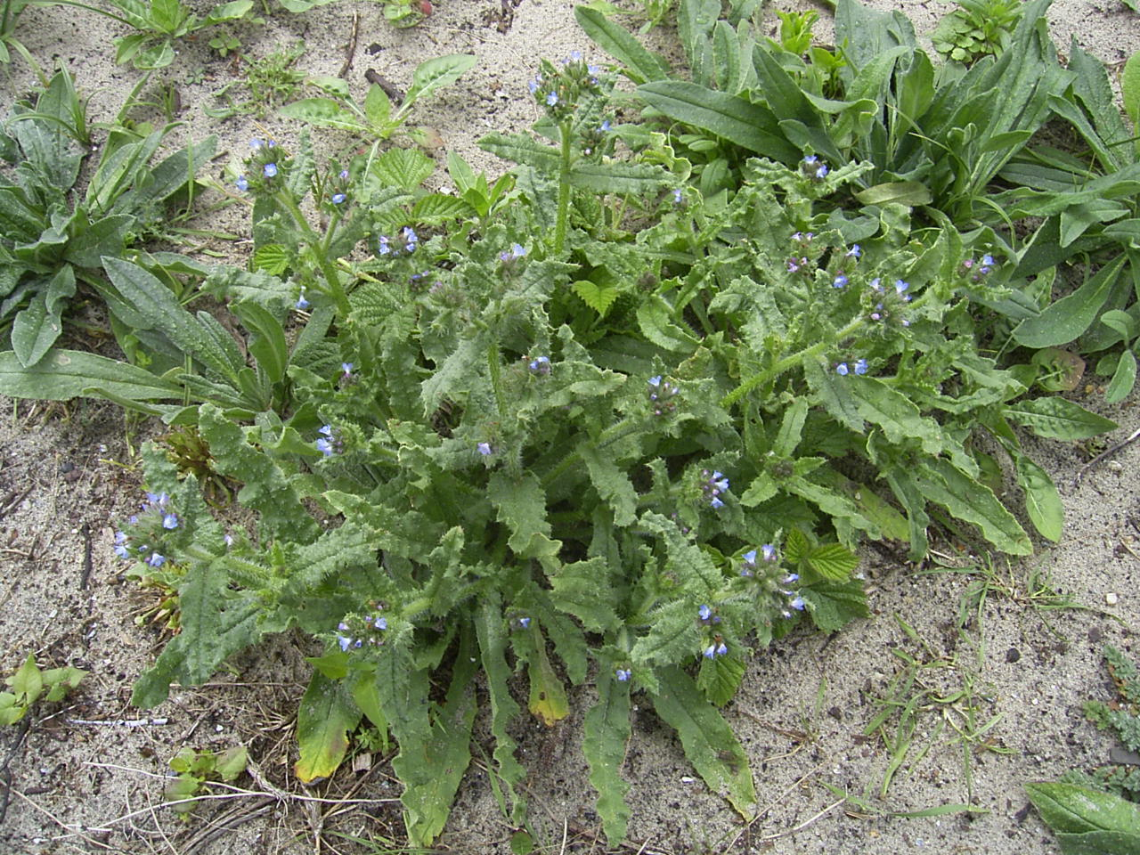 This photo shows anchusa arvensis